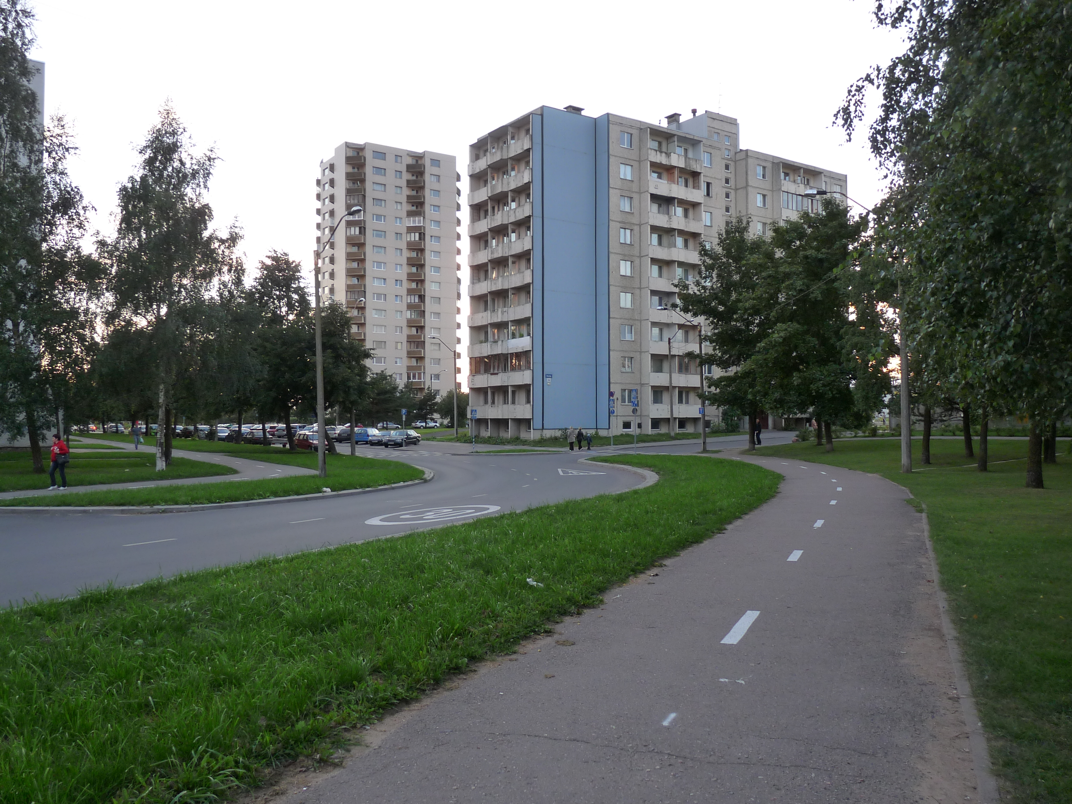 Kivila street in Mustakivi